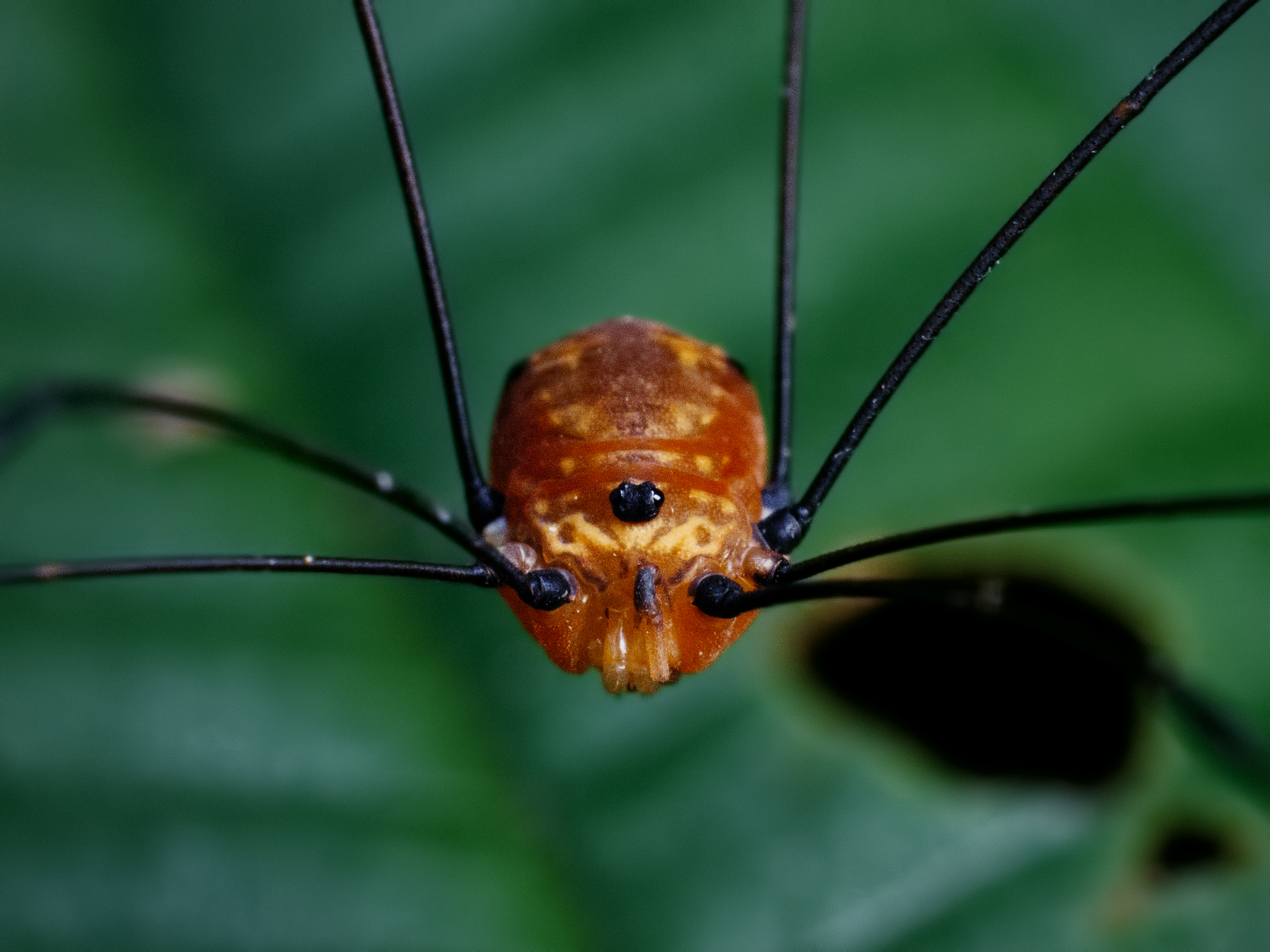 Orange harvestman in the atlantic forest of Carlos Botelho State Park, Sâo Miguel Arcanjo, Brazil.